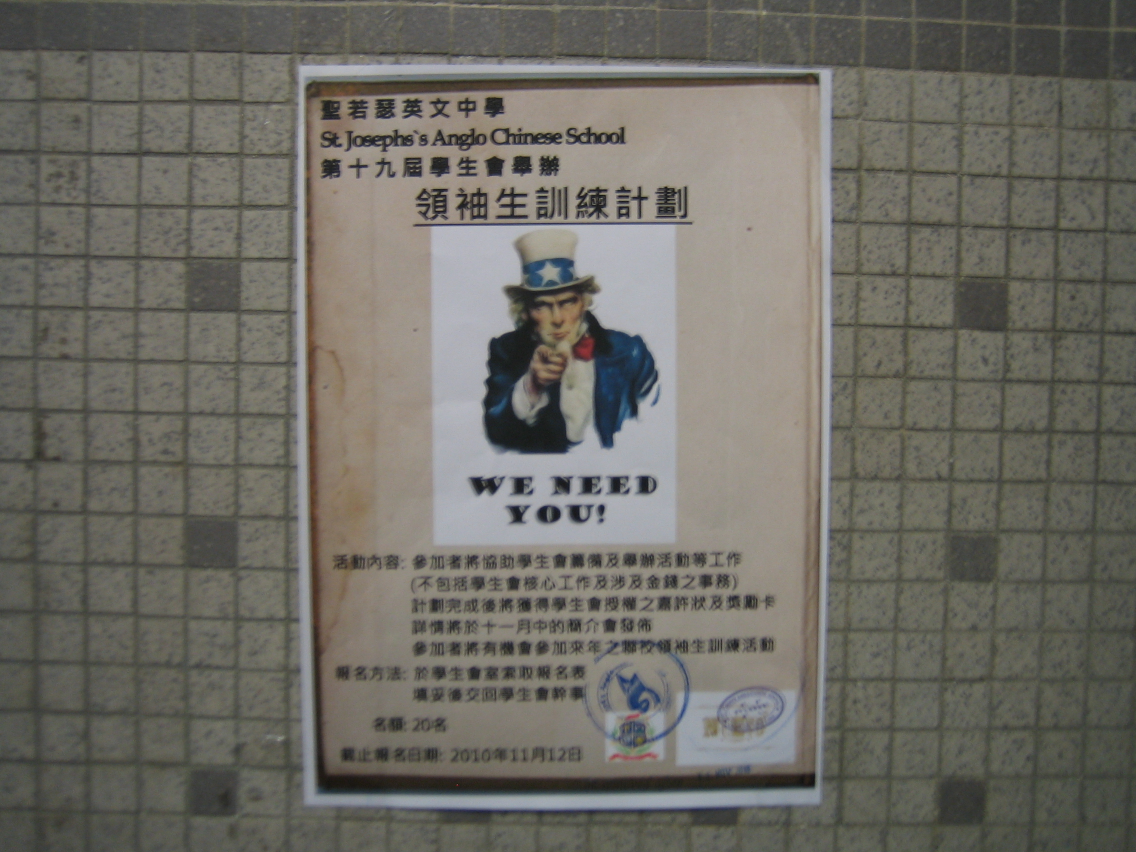 This is the poster of SA, SJACS, Hong Kong for organizing activity. Uncle Sam recruiting poster is used. 中文（香港）: 這是香港聖若瑟英文中學學生會舉辦活動時所用海報。 海報中央使用 Uncle Sam recruiting poster。